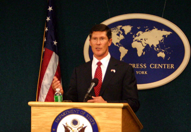 John Thain, CEO of the New York Stock Exchange, giving a briefing on "Update n NYSE Group, Inc. Initiatives" in New York.